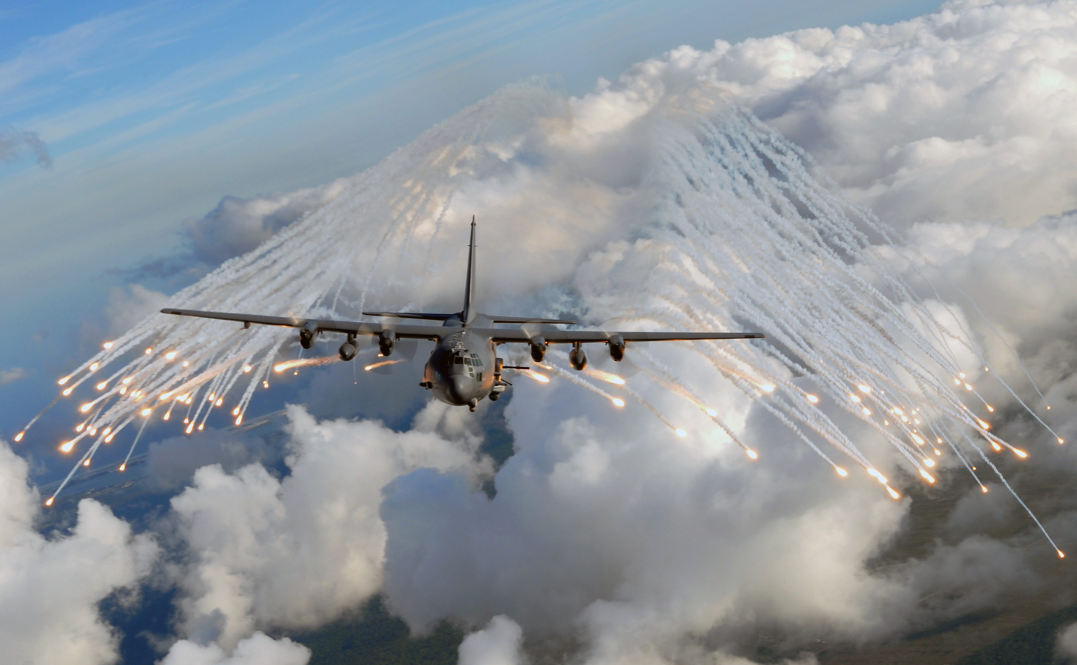 A U.S. Air Force AC-130U "Spooky" gunship from the 4th Special Operations Squadron jettisons flares over an area near Hurlburt Field, Fla., Aug. 20, 2008. The flares are a countermeasure for heat-seeking missiles that may be launched at the aircraft during real world missions. (U.S. Air Force photo by Senior Airman Julianne Showalter)